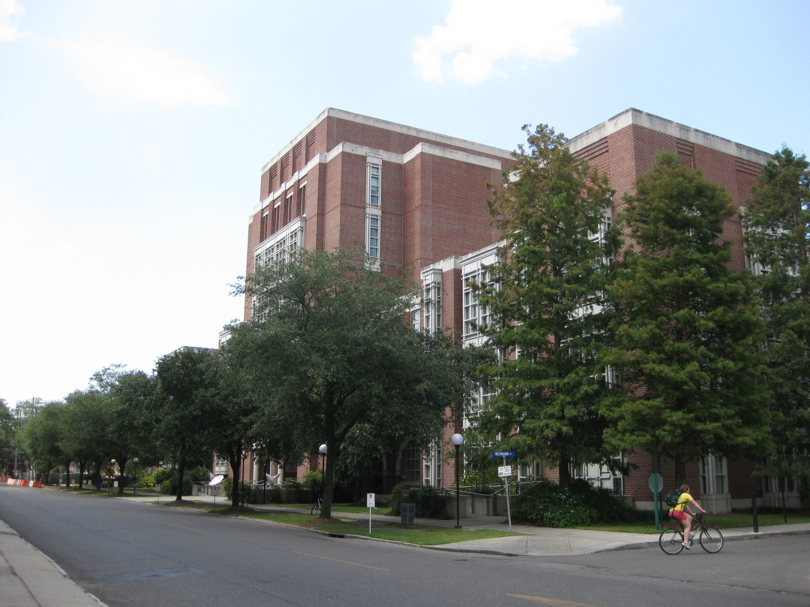 John Giffen Weinmann Hall, where the Tulane University College of Law is located.